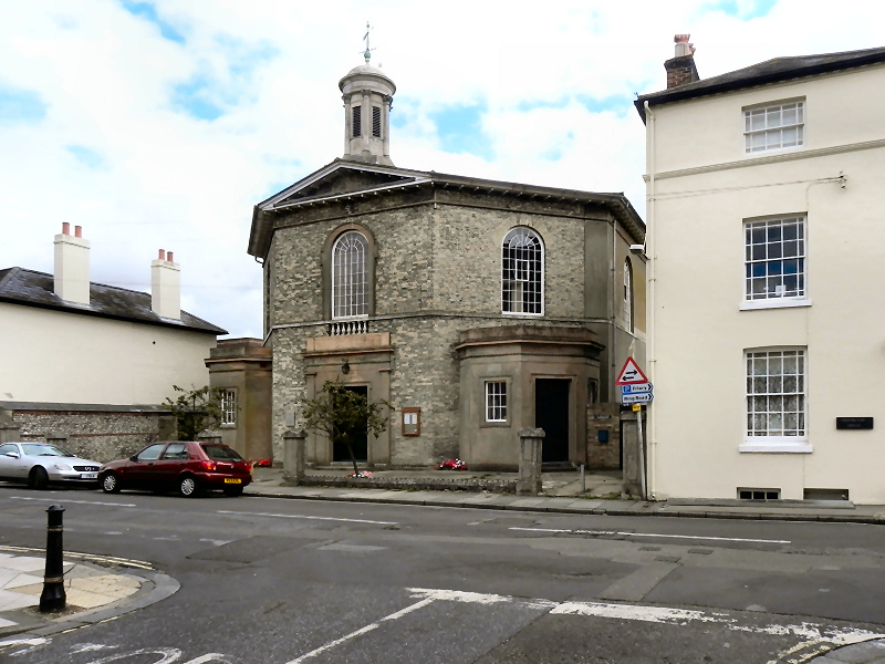 St John the Evangelist's parish church, St John's Street, Chichester, West Sussex